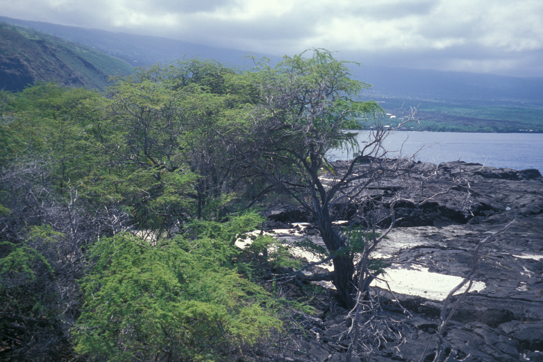 Prosopis pallida (habit). Location: Hawaii, Kaawaloa